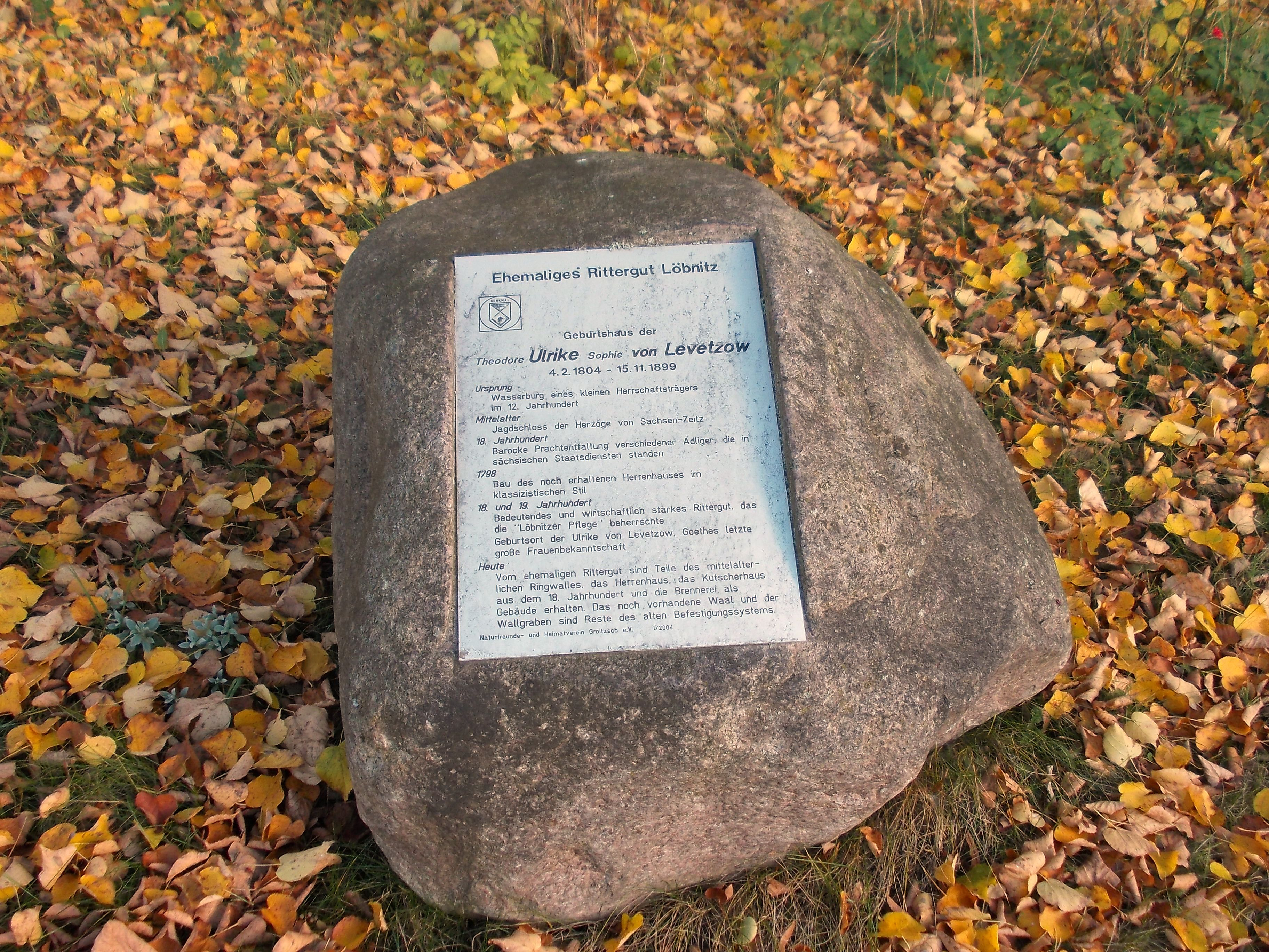 Memorial stone in front of Löbnitz manor house (Groitzsch, Leipzig district, Saxony), birthplace of Ulrike von Levetzow